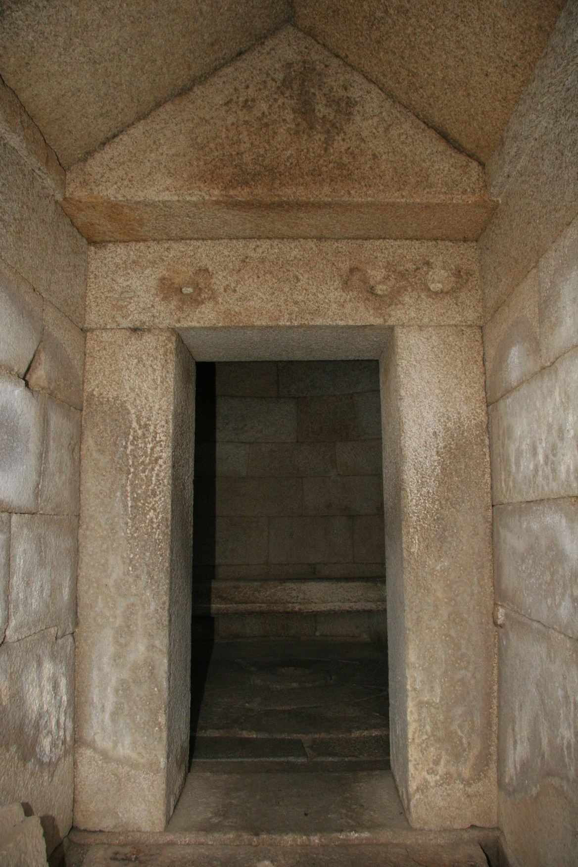 view from inside